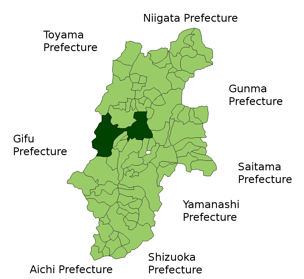 Location Map of Matsumoto in Nagano Prefecture, Japan